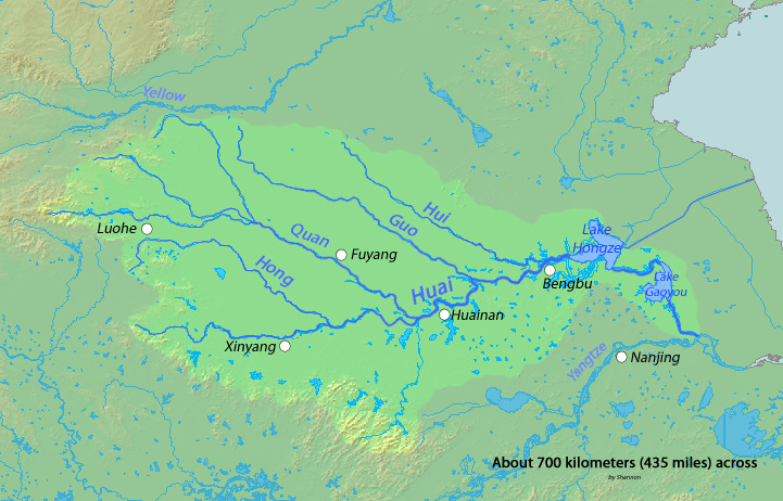 Map of the Huai River, whose watershed drains much of eastern China between the Yellow River (Huang He) and Chang Jiang (Yangtze River), eventually flowing into the Yangtze—Chang Jiang.